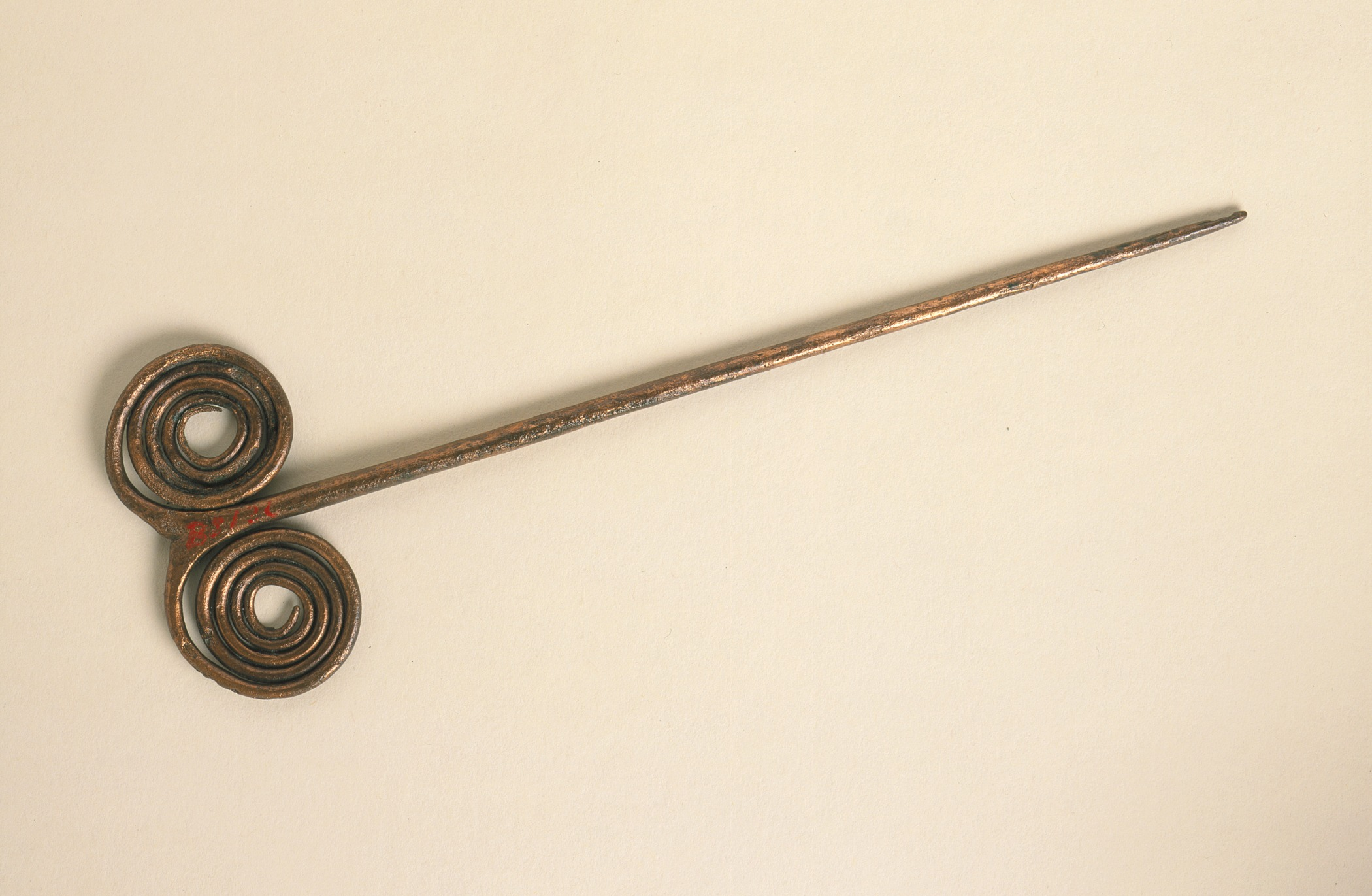 Eastern Europe, Chalcolithic period, circa 5000 B.C. Jewelry and Adornments; pins Copper, hammered 7 5/8 x 2 3/8 in. (19.4 x 6.2 cm) The Nasli M. Heeramaneck Collection of Ancient Near Eastern and Central Asian Art, gift of The Ahmanson Foundation (M.76.97.672) Art of the Ancient Near East